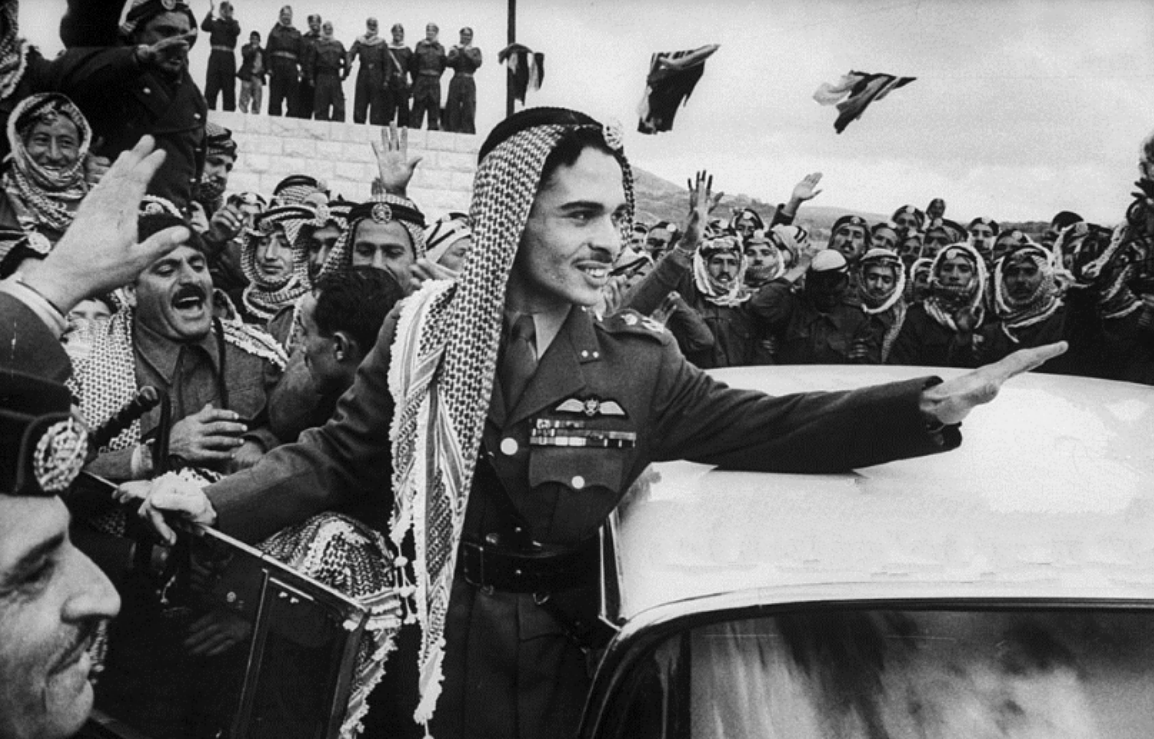 King Hussein of Jordan among his troops 1 March 1957